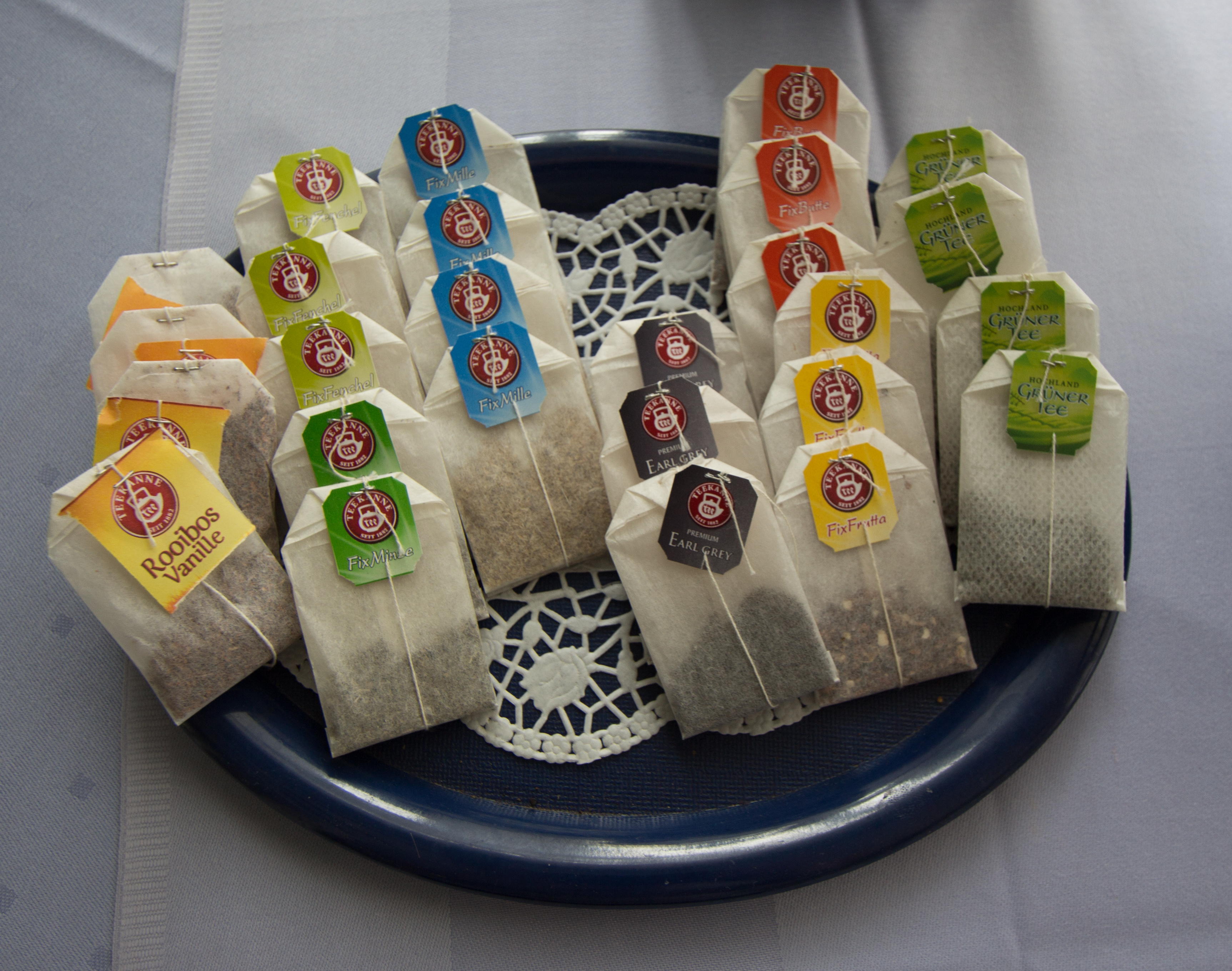 Kassel - Guidecamp 2014 August/September 2014 The making of this work was supported by Wikimedia Austria. For other files made with the support of Wikimedia Austria, please see the category Supported by Wikimedia Österreich.